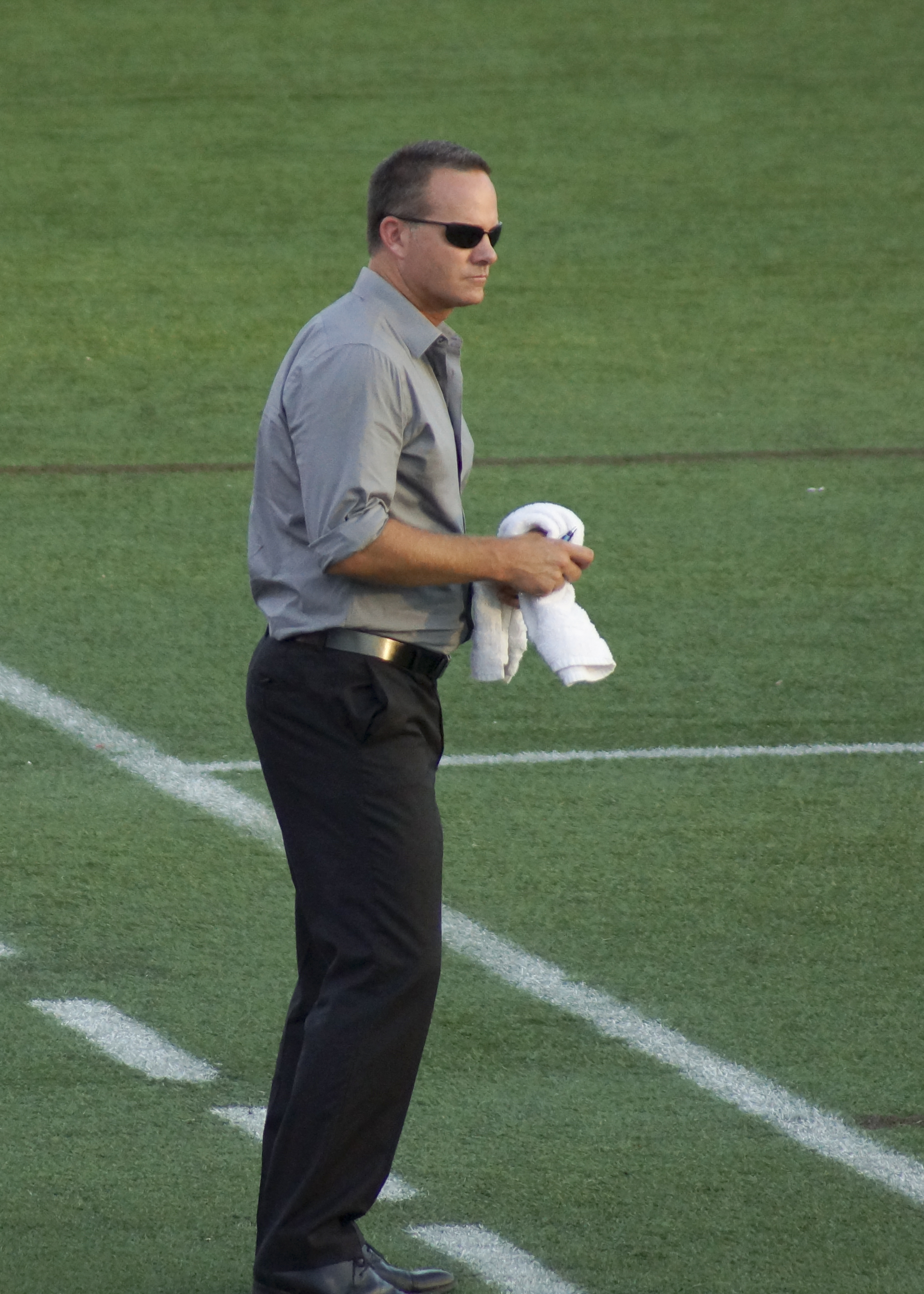 Eric Wynalda while coaching for Atlanta Silverbacks on July 14, 2012